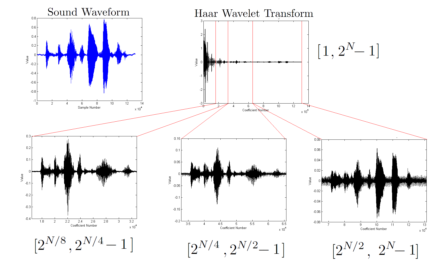 This shows a 44.1kHz waveform of me saying "I love wavelets," along with the discrete Haar wavelet transform of that signal. I have also zoomed in on different portions to highlight the multiresolution/bandpass properties of the wavelet coefficients